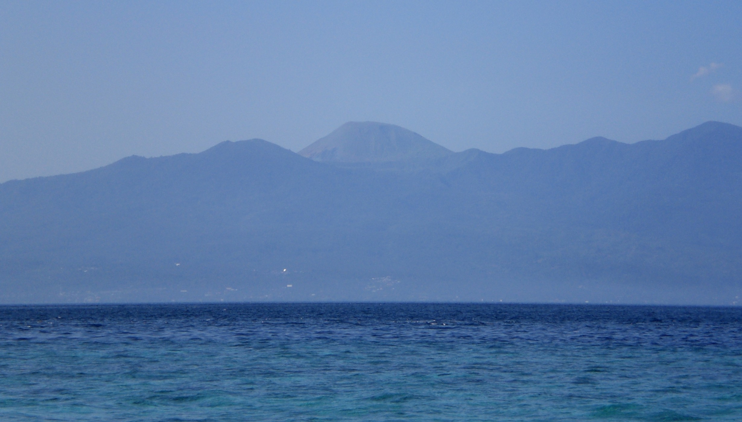 In the background the Mount Lokon, North Sulawesi, Indonesia